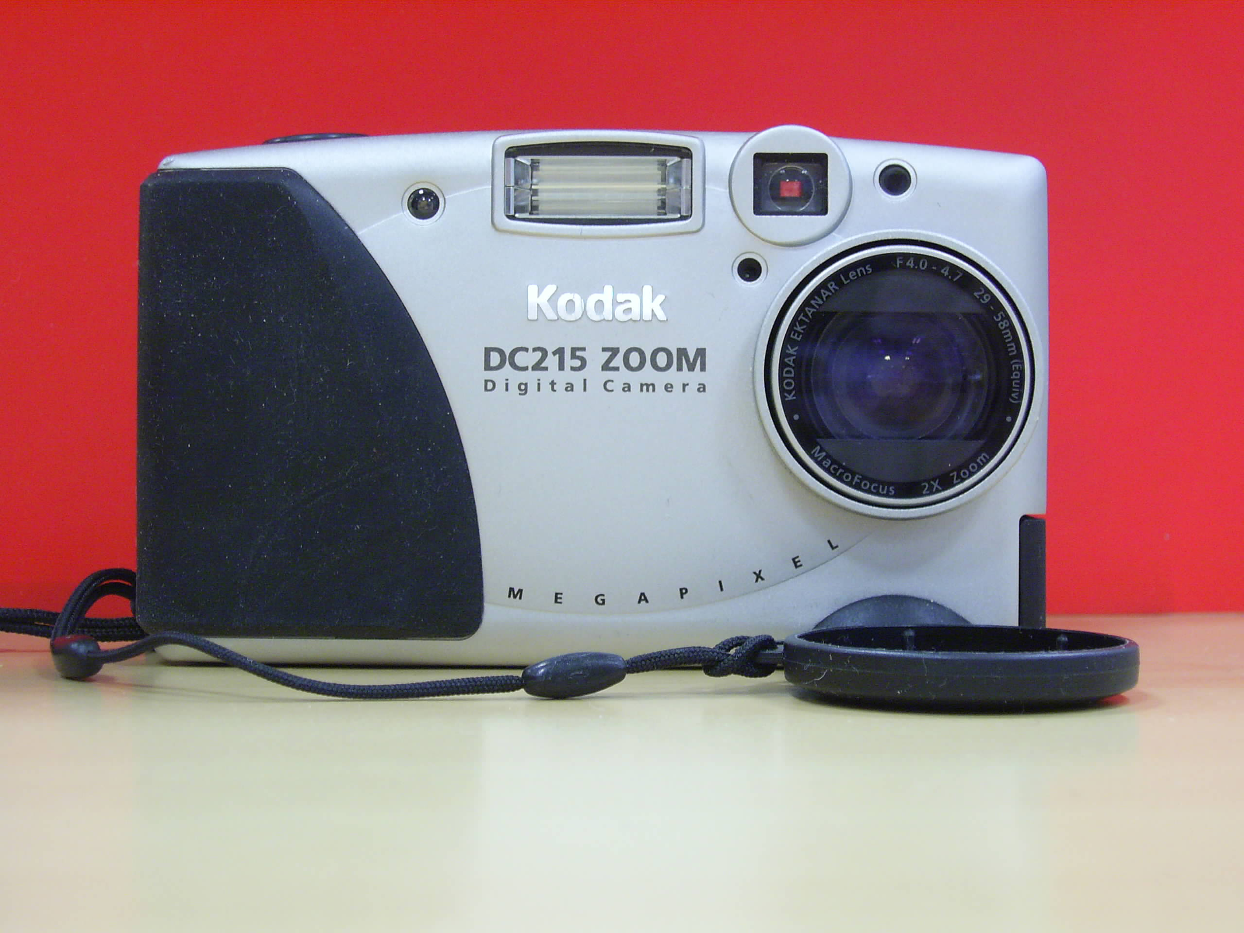 Kodak DC215 digital camera front